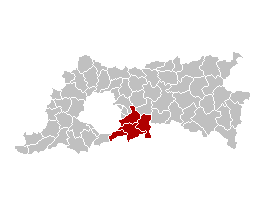 Druivenstreek in Dijleland, Flemish Brabant